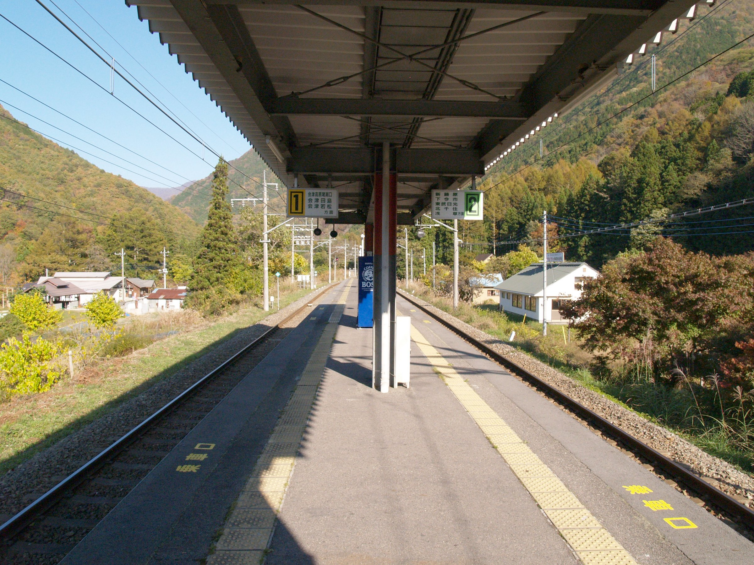 Platform of Nakamiyorionsen Station, Tochigi Pref., Japan